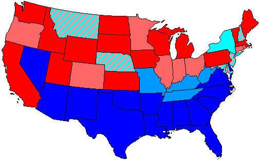 Summary of party control of U.S. house seats in the 68th United States Congress following election. Stripes indicate a tie between two or more parties. Legend: 80.1-100% Democratic seat majority 60.1-80% Democratic seat majority 60% or less Democratic seat plurality 60% or less Republican seat plurality 60.1-80% Republican seat majority 80.1-100% Republican seat majority